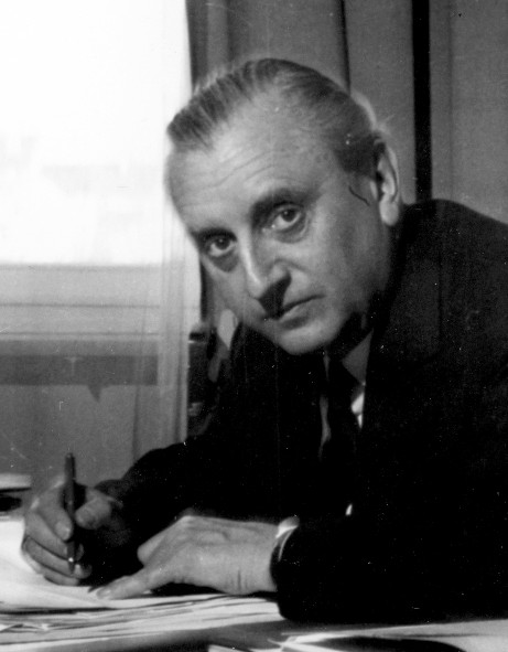 Robert Geisendörfer in 1967 at the desk of his office in Munich. Geisendörfer (1910-1976) was a pioneer in the world of protestant media. He shaped the Munich based Evangelischer Presseverband of Bavaria into a modern publishing house. In 1973 he founded the nationwide operating Gemeinschaftswerk der Evangelischen Publizistik (GEP) which then included amongst other activities a news agency, several magazines and radio as well as television departments.